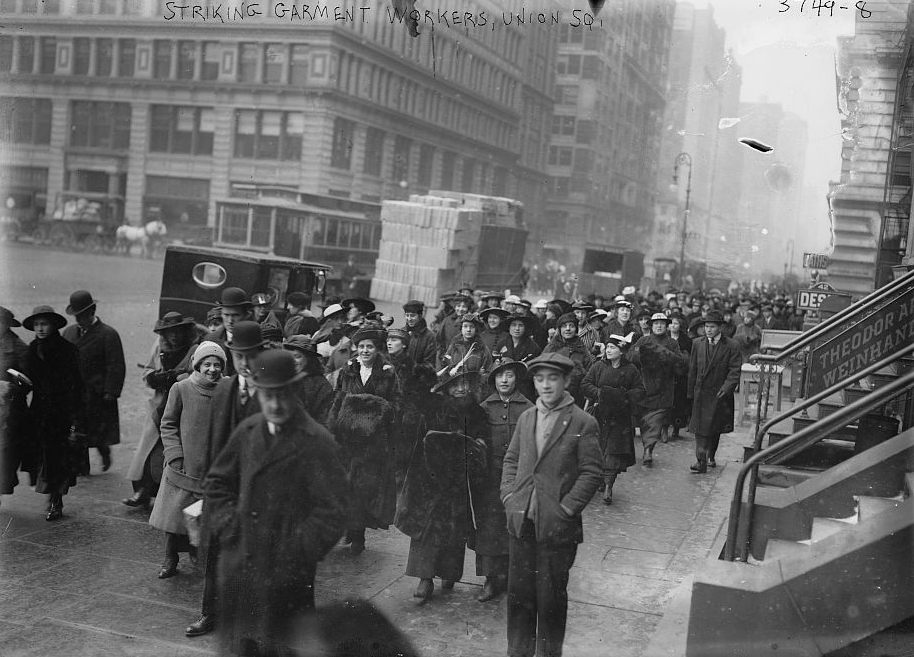 Bain News Service,, publisher. Garment workers, Union Sq., striking [between ca. 1915 and ca. 1920] 1 negative : glass ; 5 x 7 in. or smaller. Notes: Title from unverified data provided by the Bain News Service on the negatives or caption cards. Forms part of: George Grantham Bain Collection (Library of Congress). Format: Glass negatives. Repository: Library of Congress, Prints and Photographs Division, Washington, D.C. 20540 USA, General information about the Bain Collection is available at Higher resolution image is available (Persistent URL): Call Number: LC-B2- 3749-8